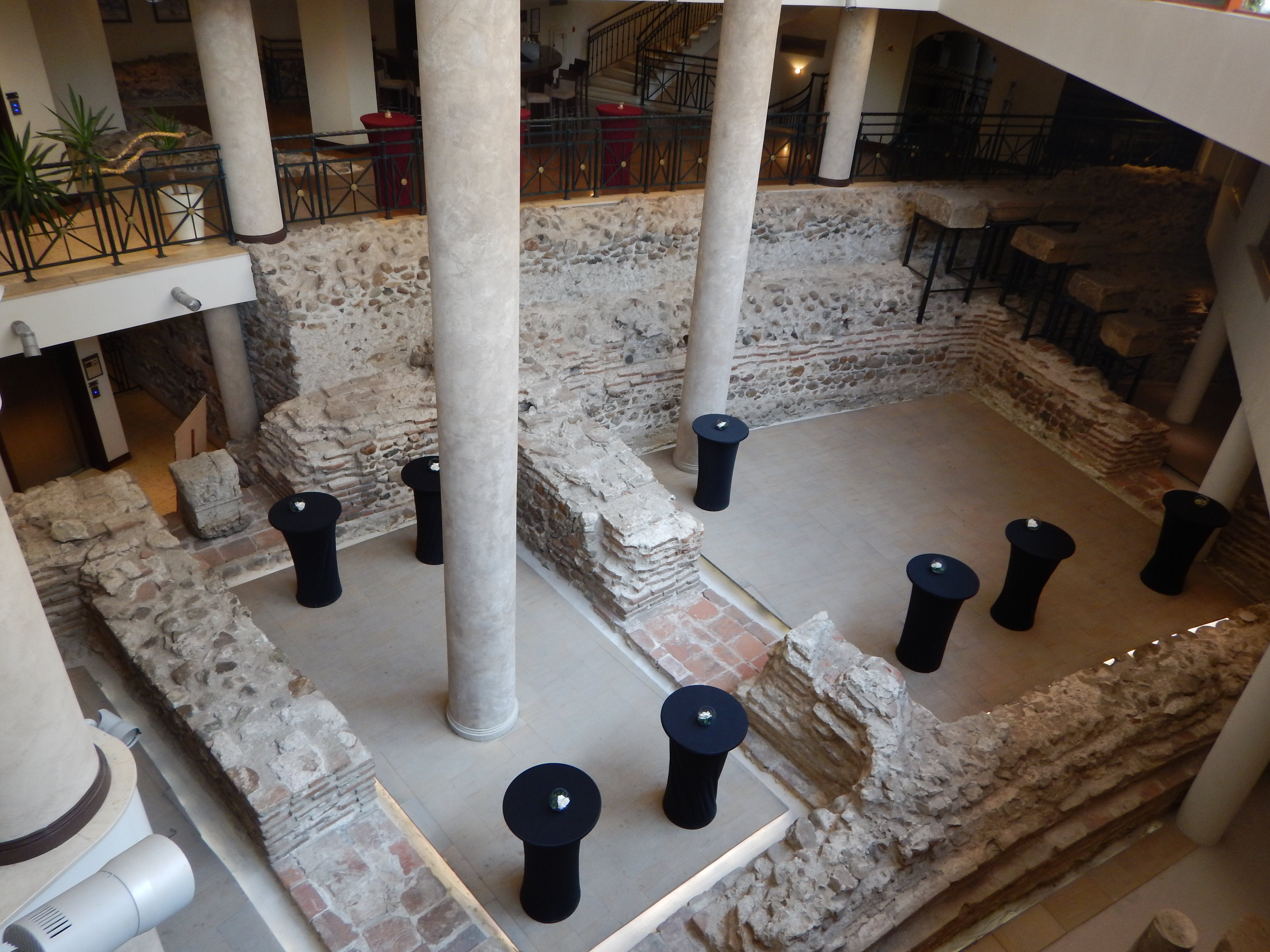 Sofia amphitheatre, part of